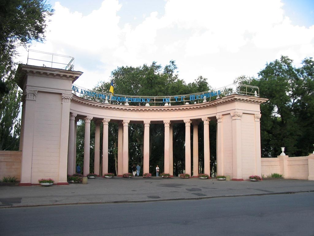 Entrance to the Taras Shevchenko Park in Dnipropetrovsk, Ukraine.